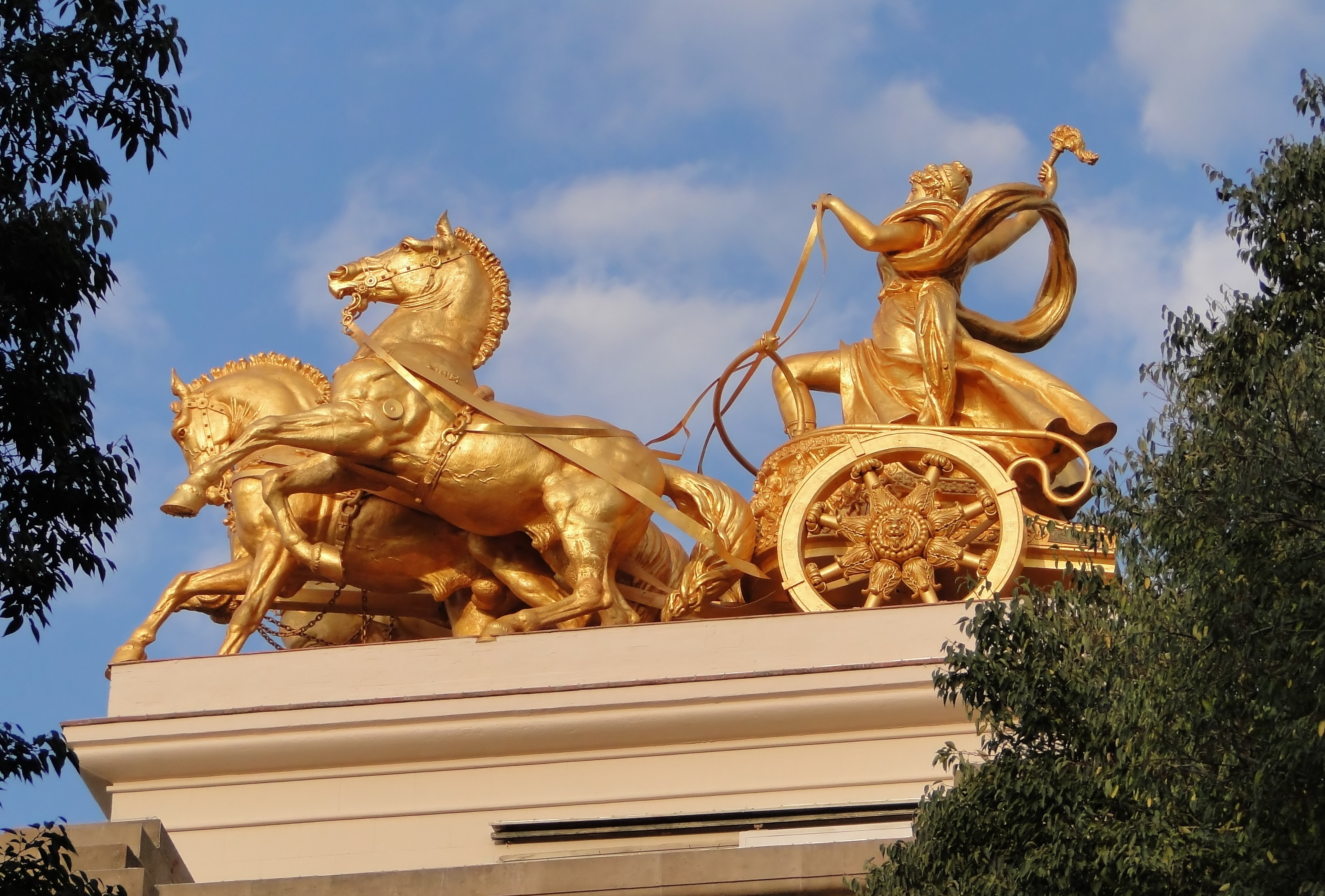 Quadriga de l'Aurora sculpted in 1885 by Rossend Nobas i Ballbé. It is on the top of the fountain in the Parc de la Ciutadella, Barcelona, Spain